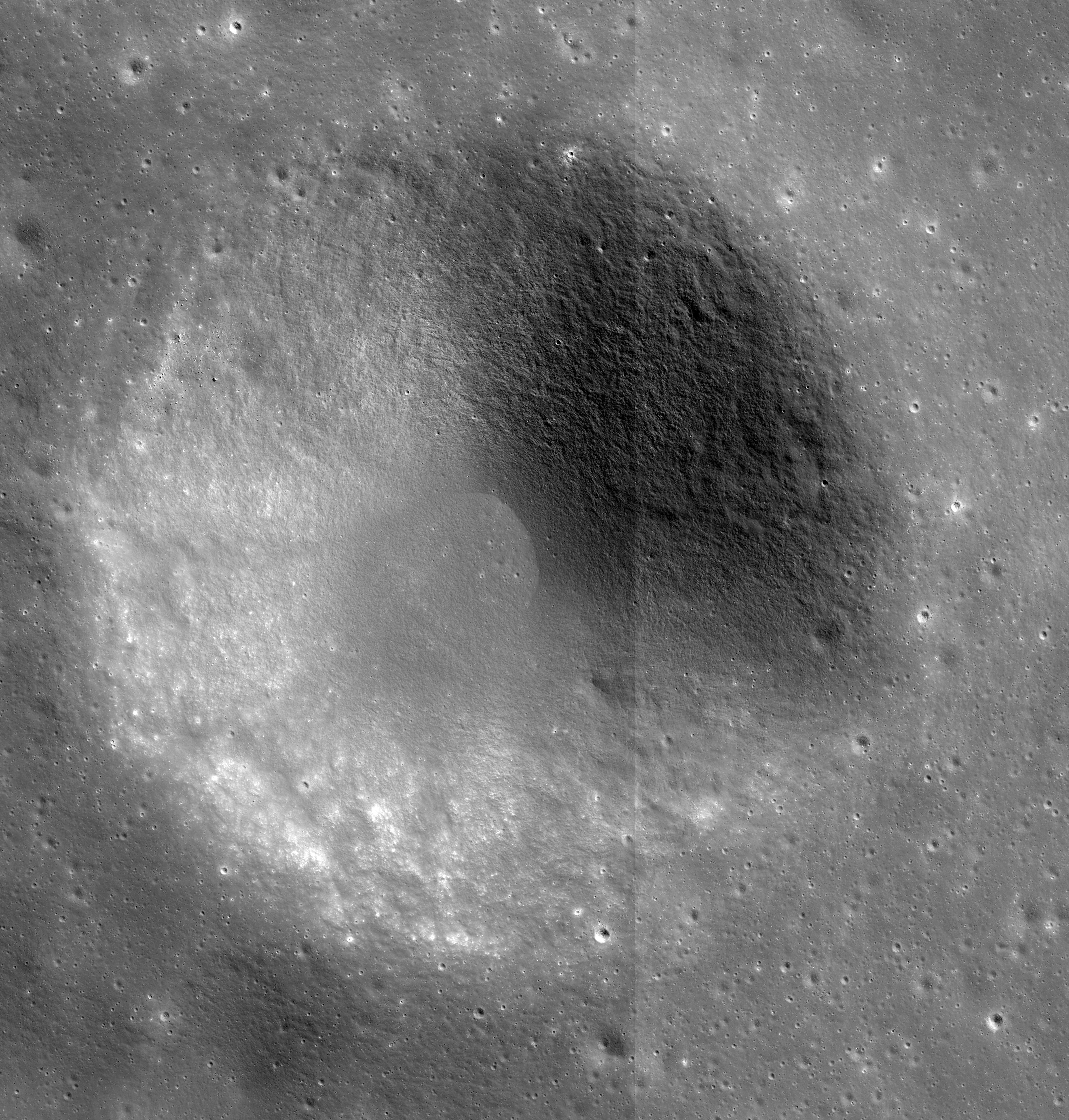 Tianjin crater, within Von Kármán crater, on the far side of the moon. Image is approximately 4750 m wide.